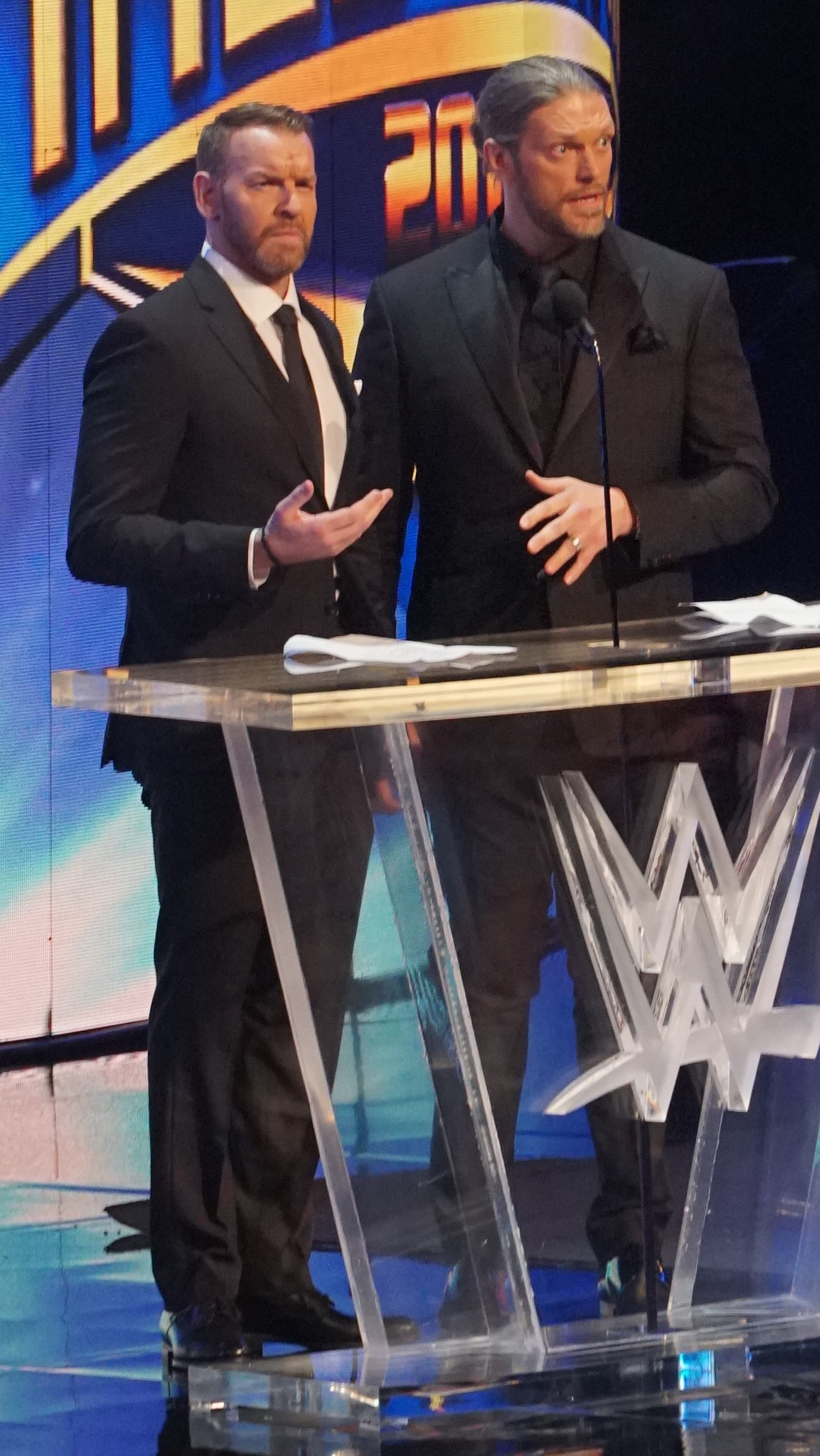 Christian and Edge (right) at the WWE Hall of Fame ceremony 2018, to induct the Dudley Boyz.